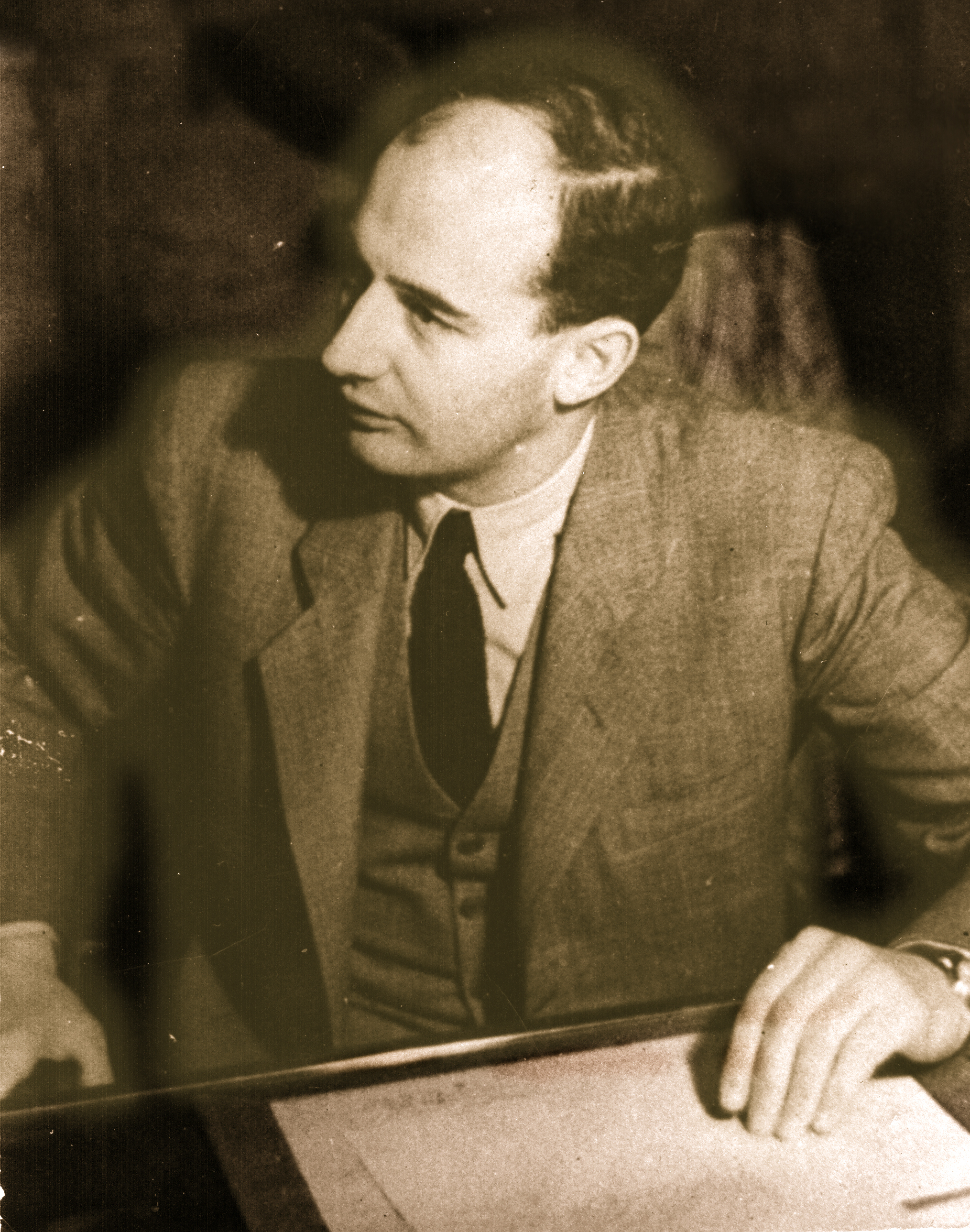 Raoul Wallenberg